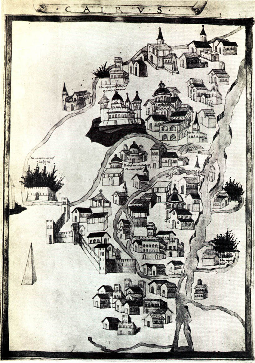 Historic map of Cairo, Egypt.